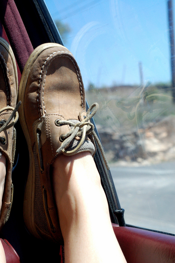 A woman wearing Sperry Top Sider boat shoes.